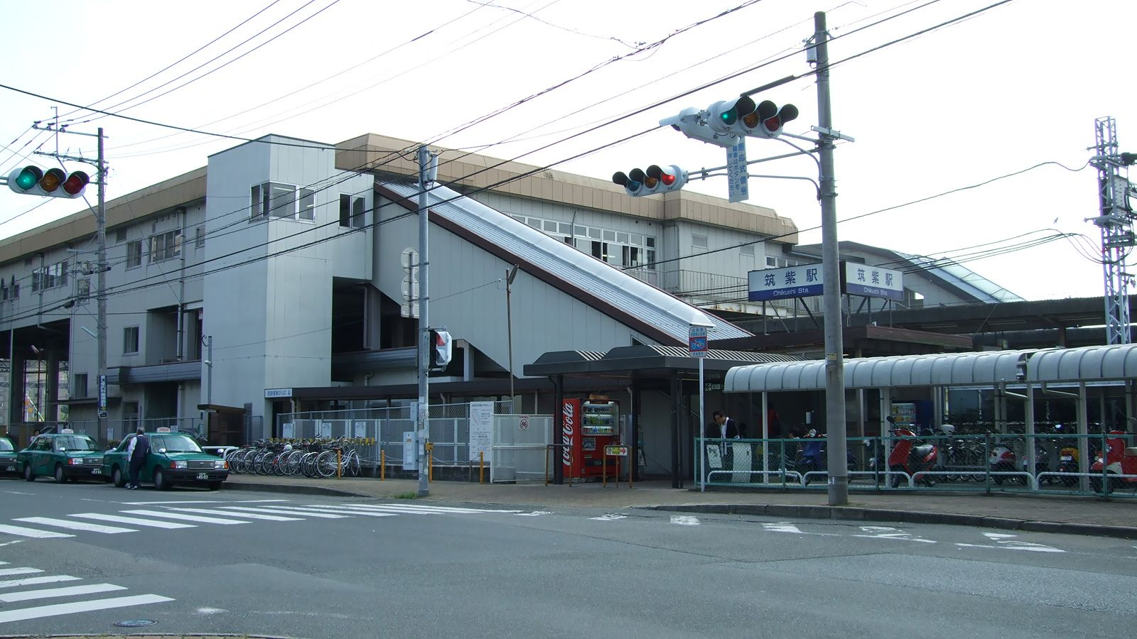 Chikushi Station, Nishitetsu Tenjin Omuta Line.